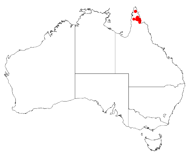 Boronia squamipetala downloaded from Australasian Virtual Herbarium 10 April 2019 using This download included all the environmental overlay fields and ALA's data checking fields including "cultivated / escapee", "outside expert range for species", "latitude is negated", "coordinates are transposed", "taxon misidentified", "habitat incorrect for species", and "suspected outlier" (711 fields). Deleting occurrences for which any of the above were true, 46 specimens with coordinates were deleted.